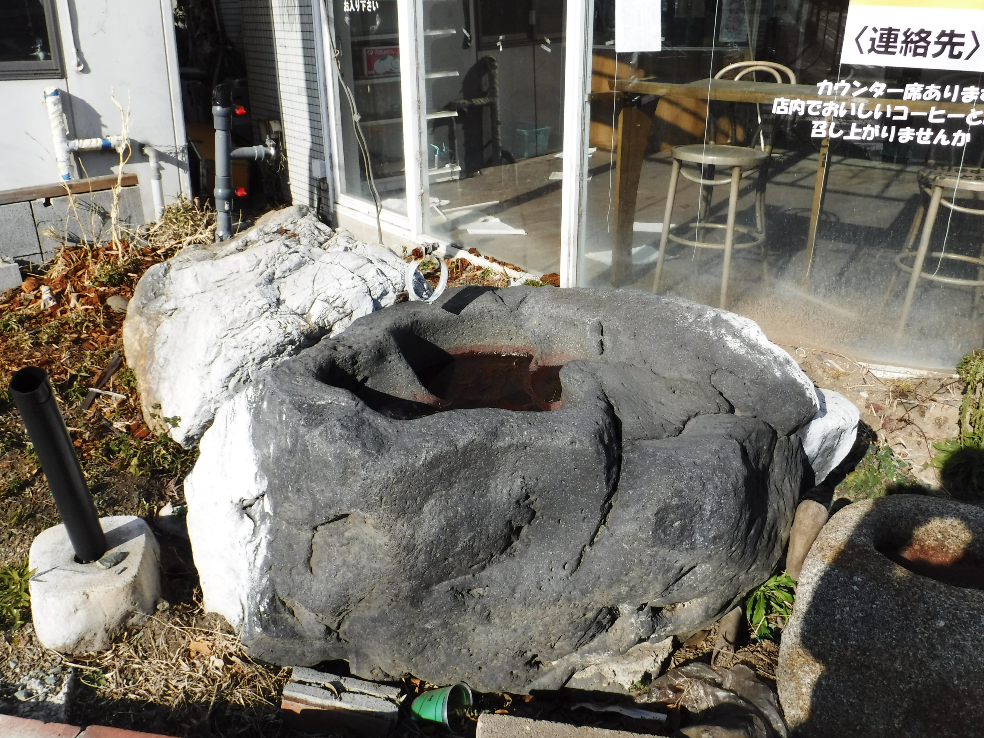 Remains of Sampuku Onsen (a hot spring) located in Takasaki, Gunma, Japan.